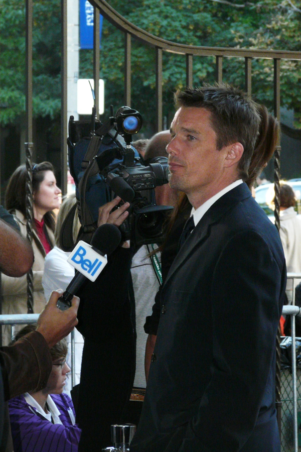 Actor Ethan Hawke on the Red Carpet at the Tiff 08 Premiere of What Doesnt Kill you at Ryerson University in Toronto Canada